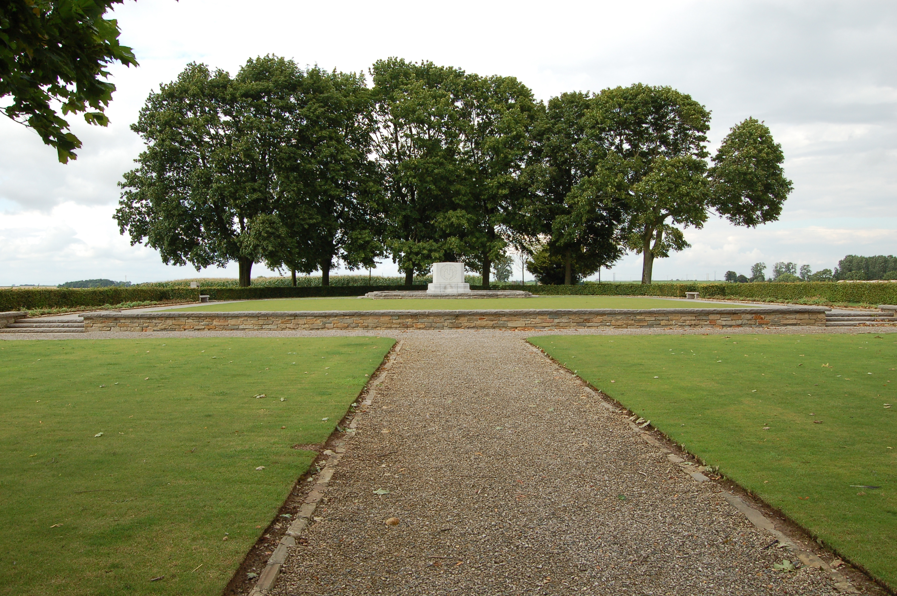 Canadian Le Quesnel Battle of Amiens Memorial on August 8th 2008, the 90th anniversary of the Battle of Amiens